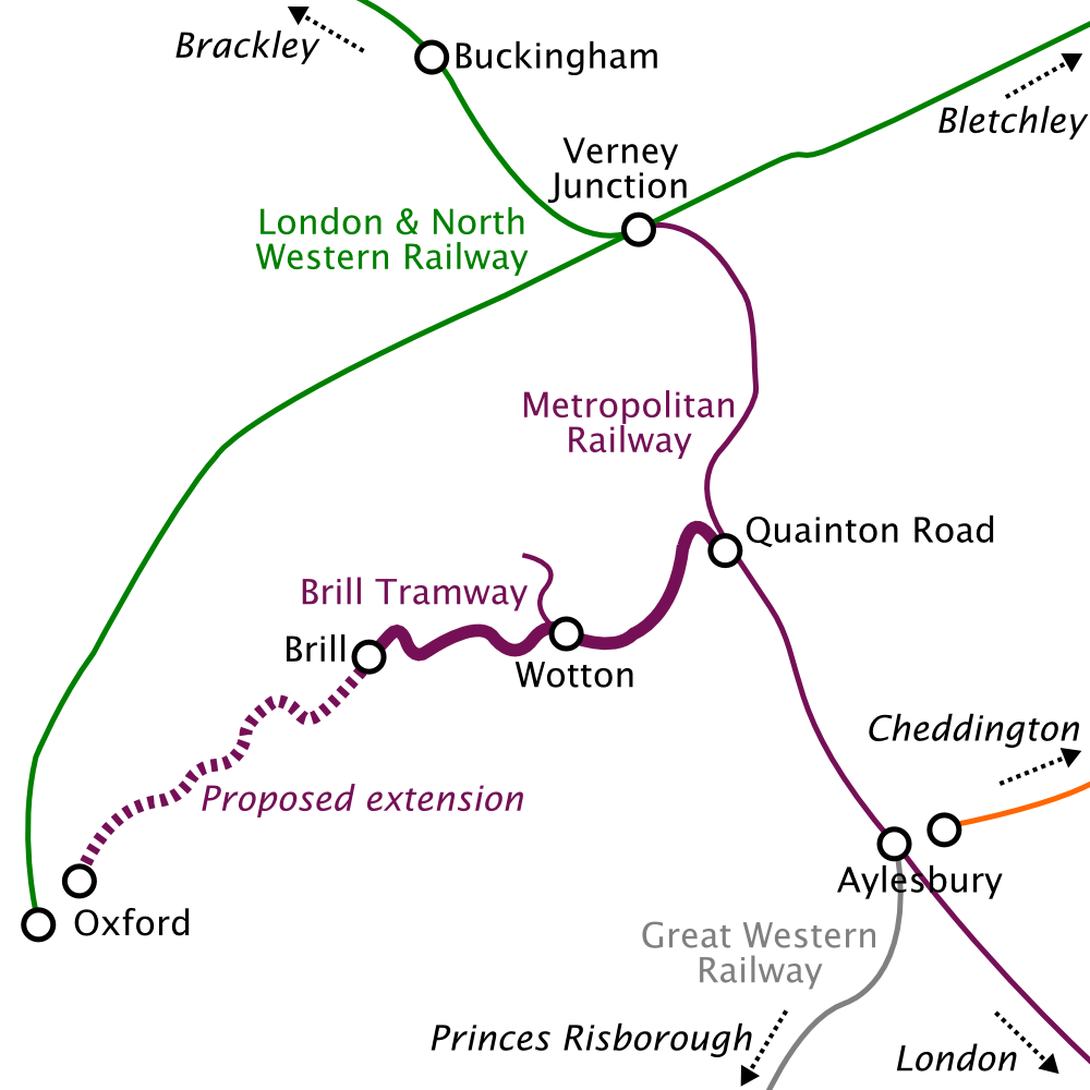 The Brill Tramway and associated lines, 1894